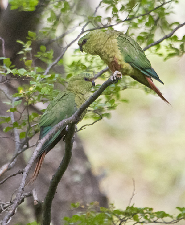 Torres del Paine National Park, Chile